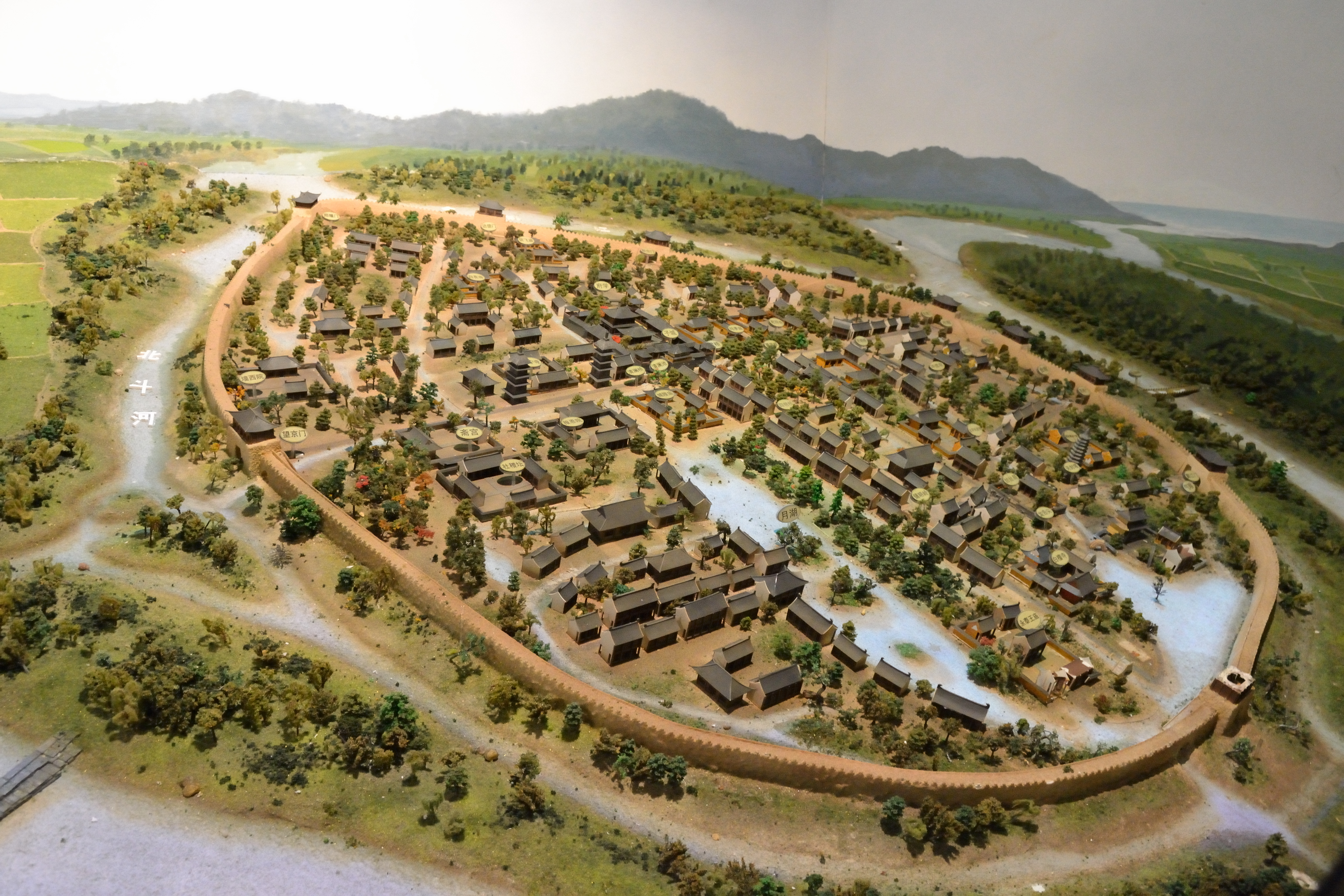 Mingzhou city model in Tang Dynasty, displayed in Ningbo Museum